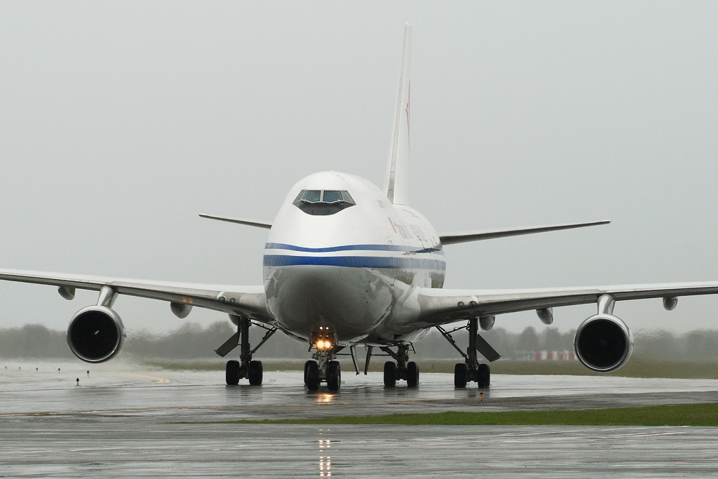 I have seen B-2453 for the second time in my airport, and second time bad weather. Strong rain. Miss fortune. Transit stop. Official spotting in OVB. Ex B-KAH CX Cargo and 9V-SMS Singapore Airlines in passenger version.